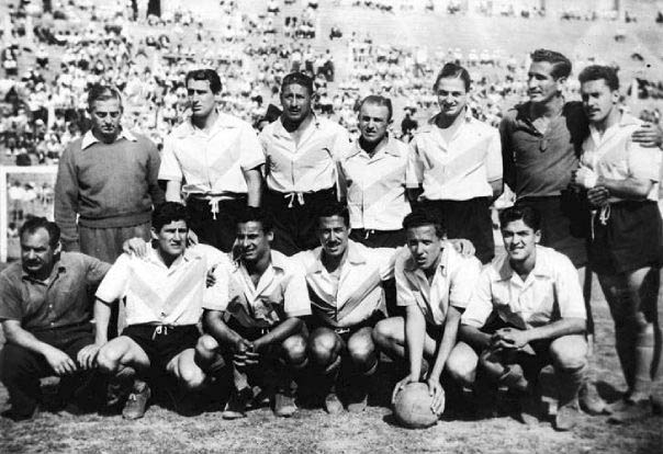 Vélez Sarsfield team, runners-up. Fltr, standing: Ángel Allegri, Oscar Huss, Armando Ovide, Jorge Ruiz, Nicolás Adamo, Rafael García; (seated): Ernesto Sansone, Norberto Conde, Juan José Ferraro, Osvaldo Zubeldía, Juan Carlos Mendiburu